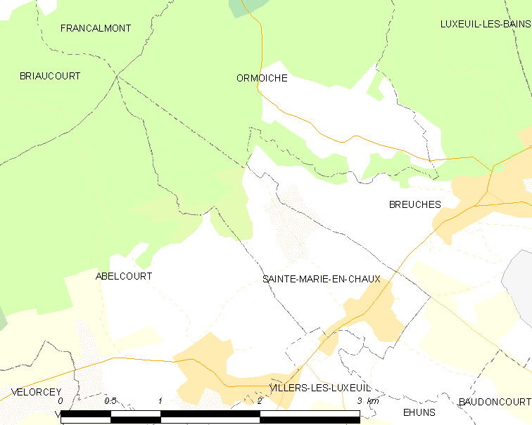 Map of French municipality